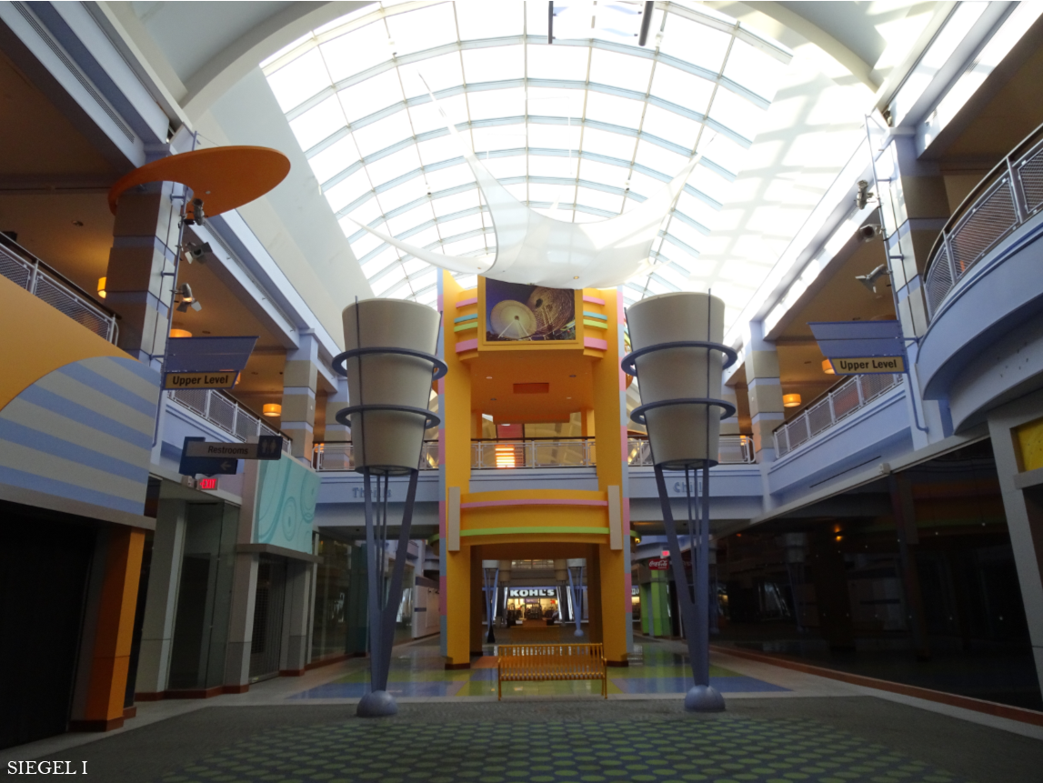 Photo of main corridor at Cincinnati Mills Mall, a dead mall, in Cincinnati, Ohio.